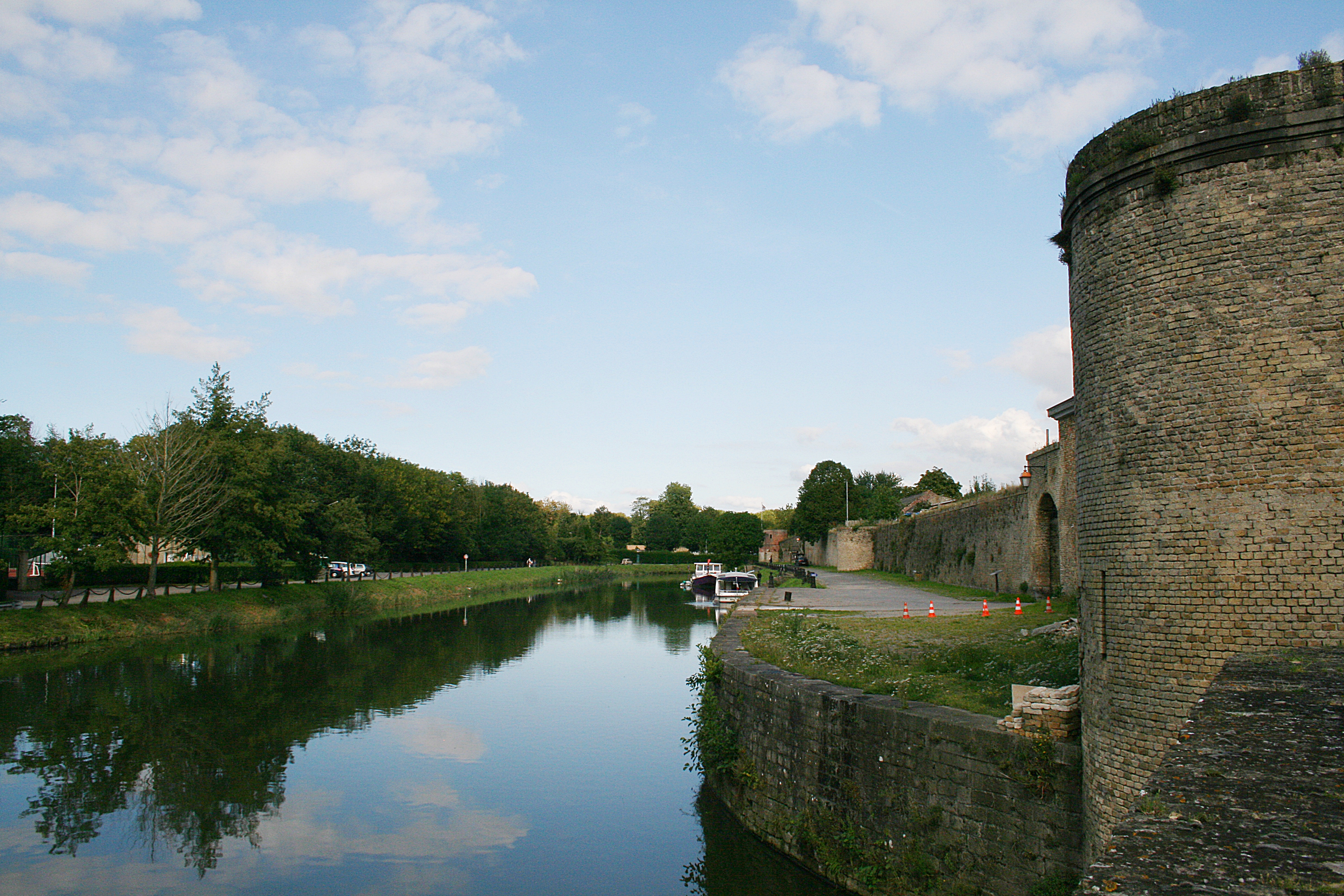 The canal de Bergues along the ramparts and the rue du Quai in Bergues (Nord department, France).